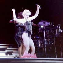 Wembley Stadium Londen Engeland juli '87